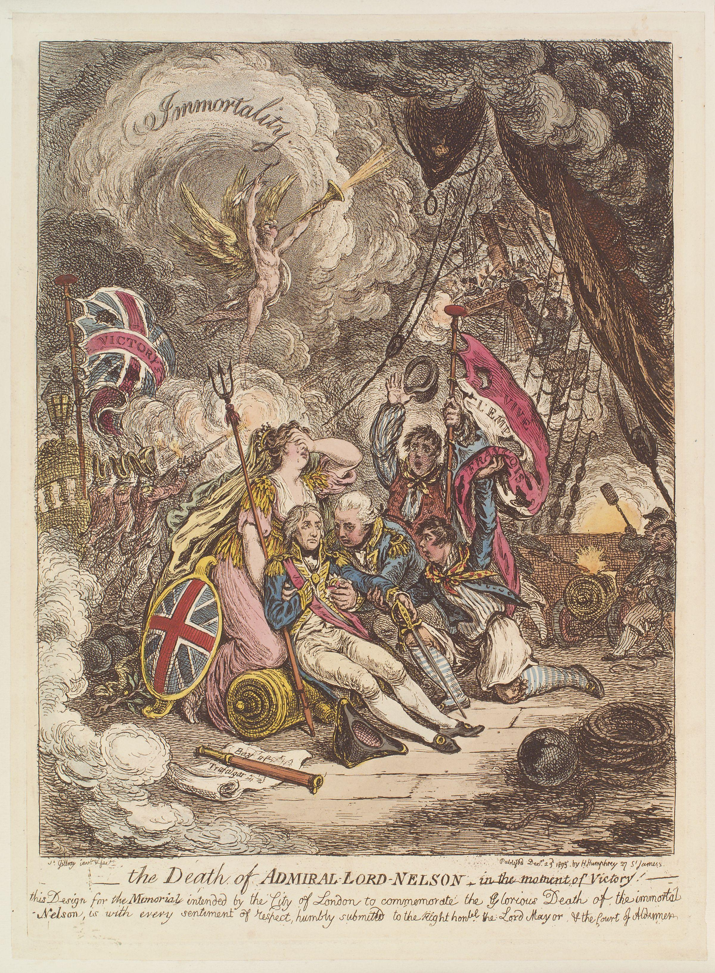 The death of Admiral Lord Nelson - in the moment of victory!, by James Gillray (died 1815), published 1805. All images in this batch have been confirmed as author died before 1939 according to the official death date listed by the NPG.